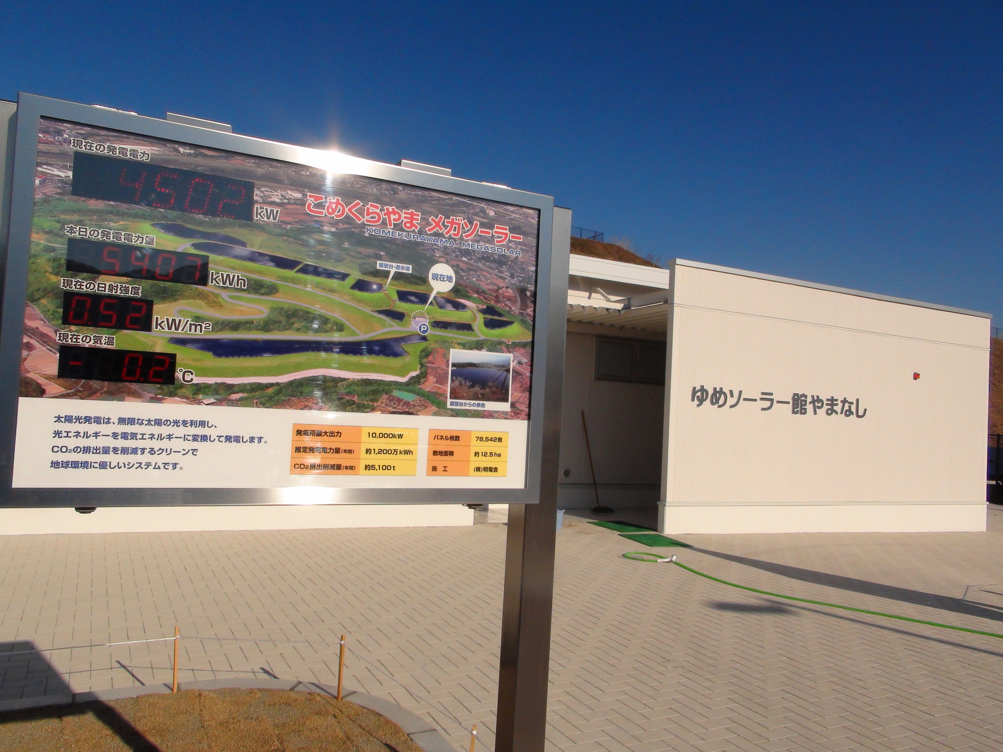 Solar power facility in Yamanashi Prefecture Public relations